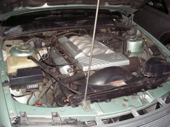 5.0 litre V8 engine of a 1990 Holden VN Calais.